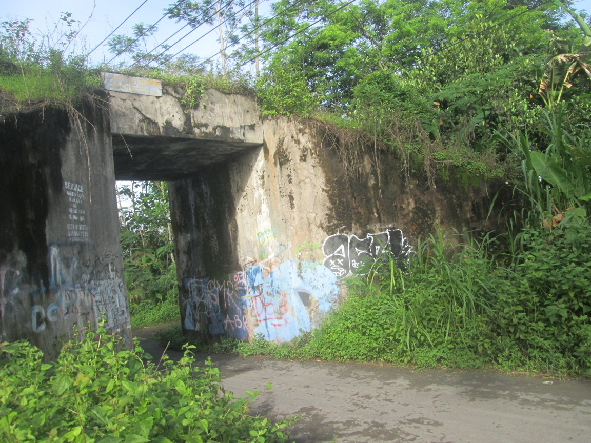 Ex-Ganjuran underpass.